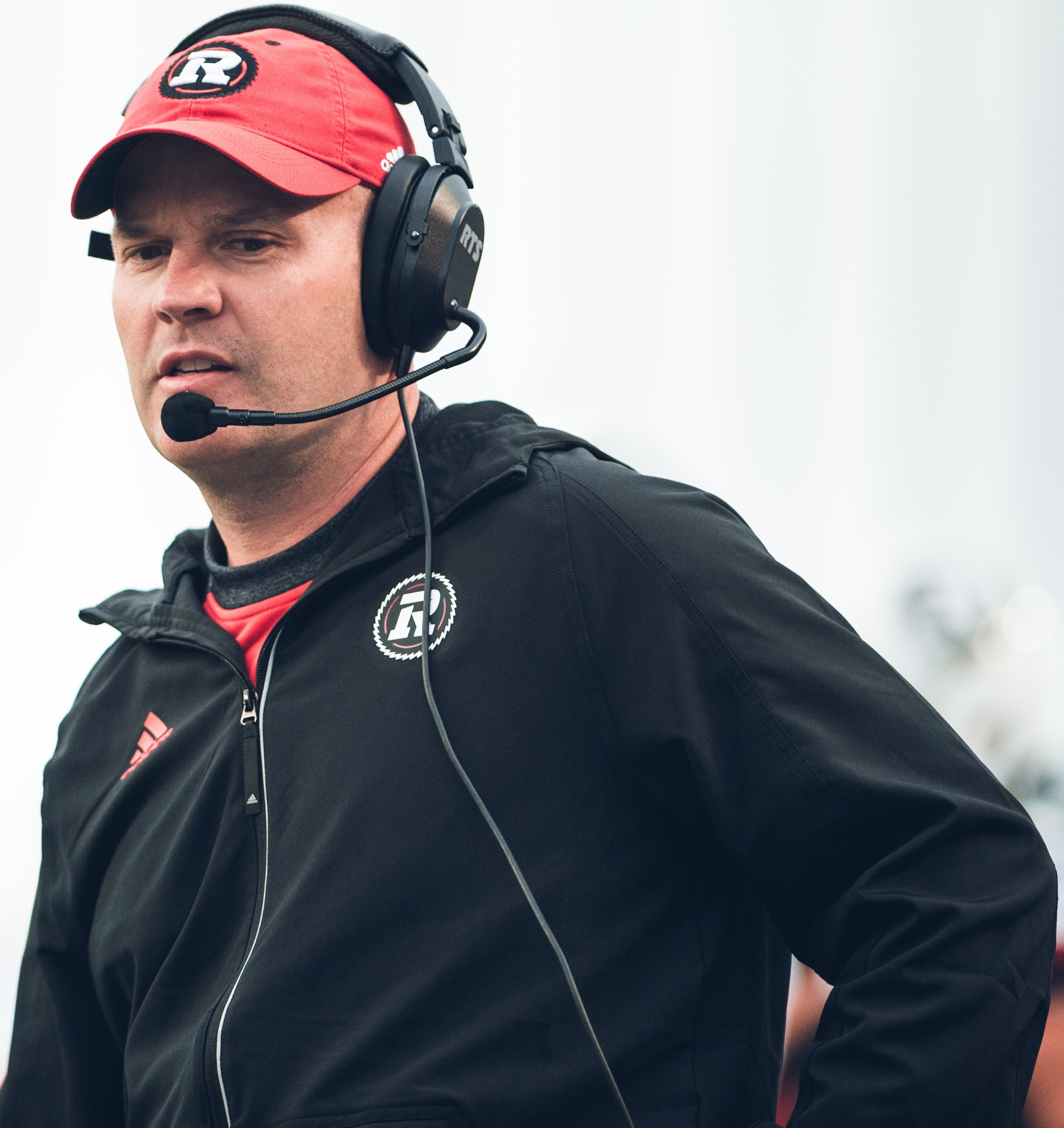 Ottawa REDBLACKS head coach Rick Campbell during the pre-season game at TD Place in Ottawa, ON on Monday June 13, 2016. (Photo: Johany Jutras)